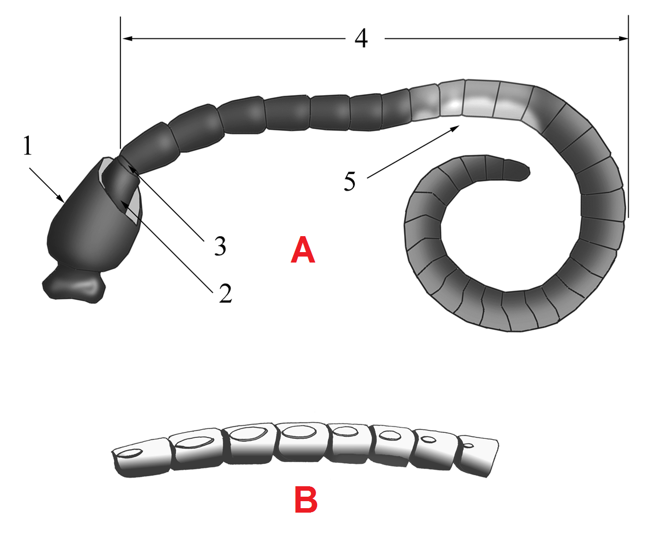 Morphology of head and its processes: (А) antenna; (B) tyloids. Antenna (B): (1) scapus; (2) pedicellus; (3) annelus; (4) flagellum; (5) flagellar annulus.